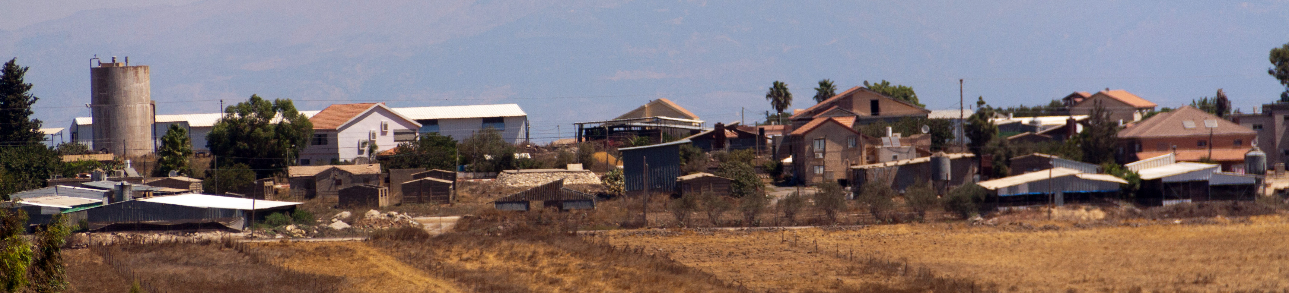 Alma, from south